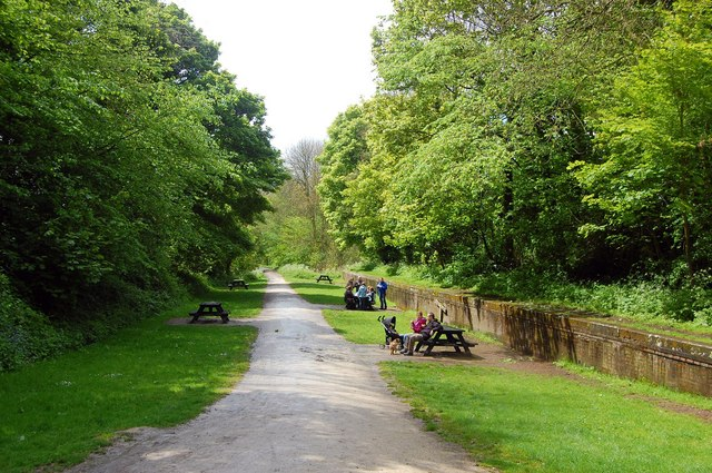 Tissington Station